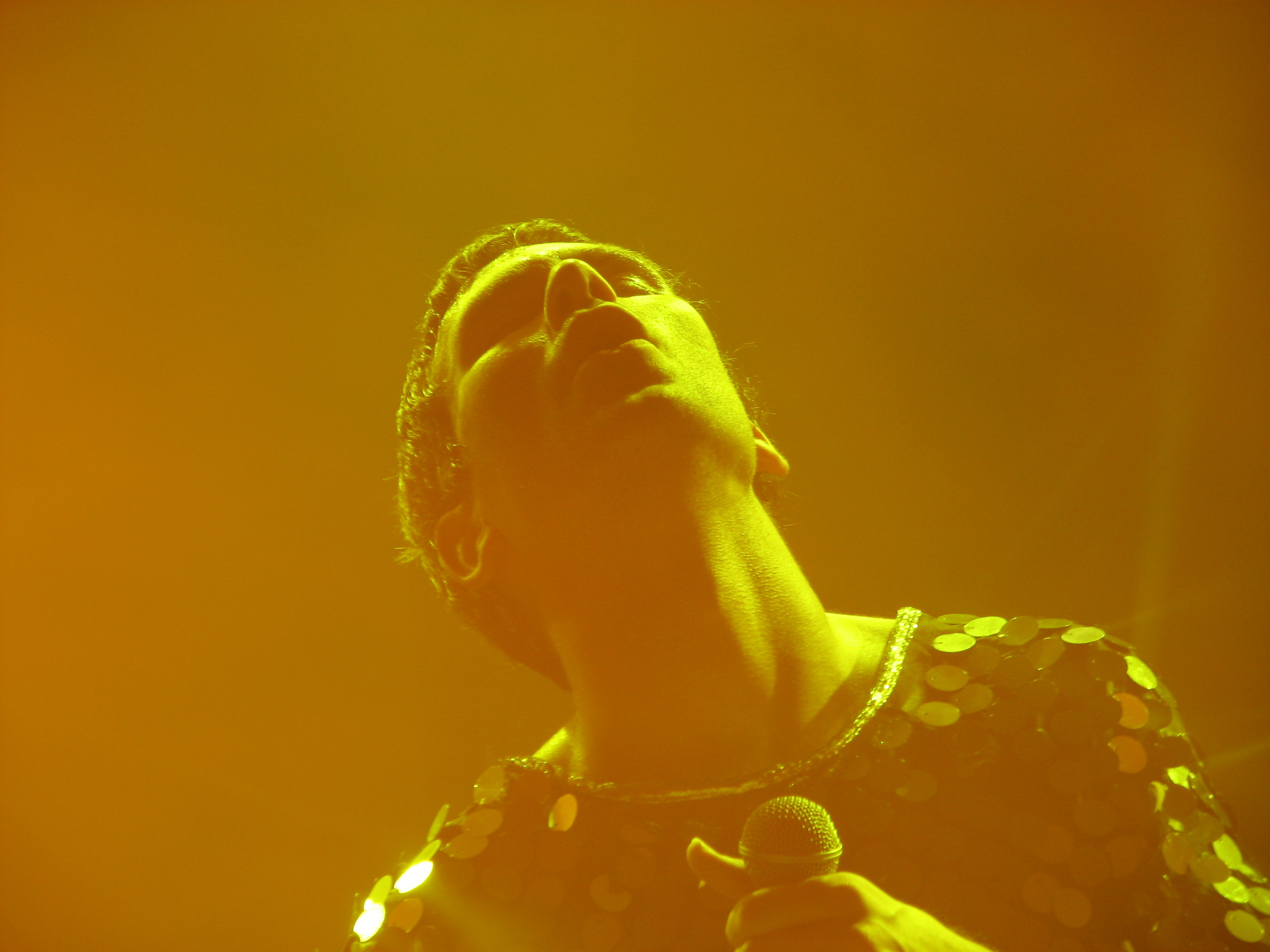 Jamie Lidell @ Metro, Chicago 10/27/06